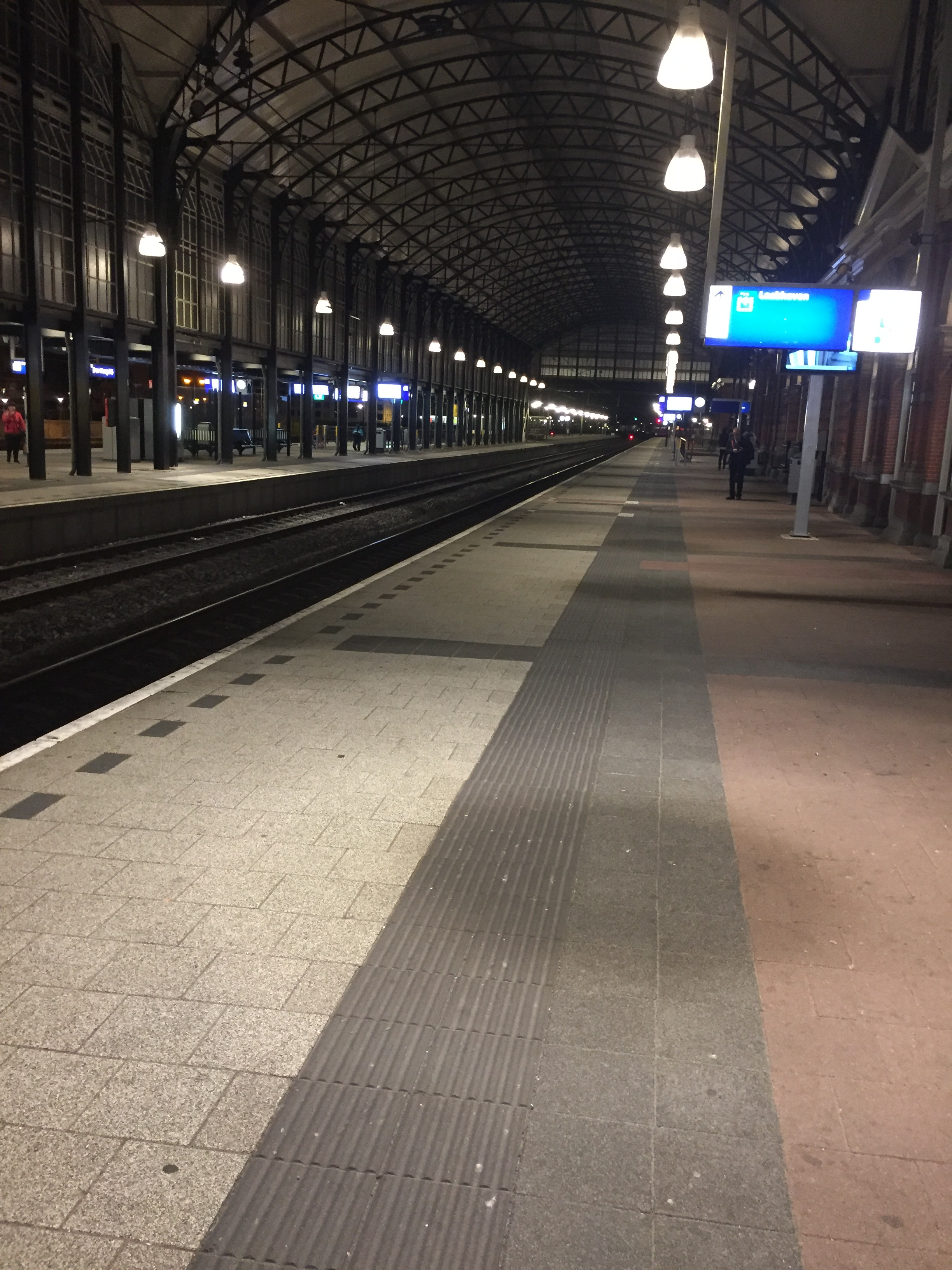 Den Haag HS station